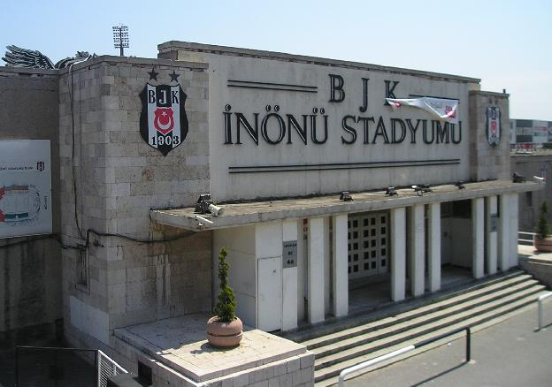 Picture of BJK Inönü Stadium